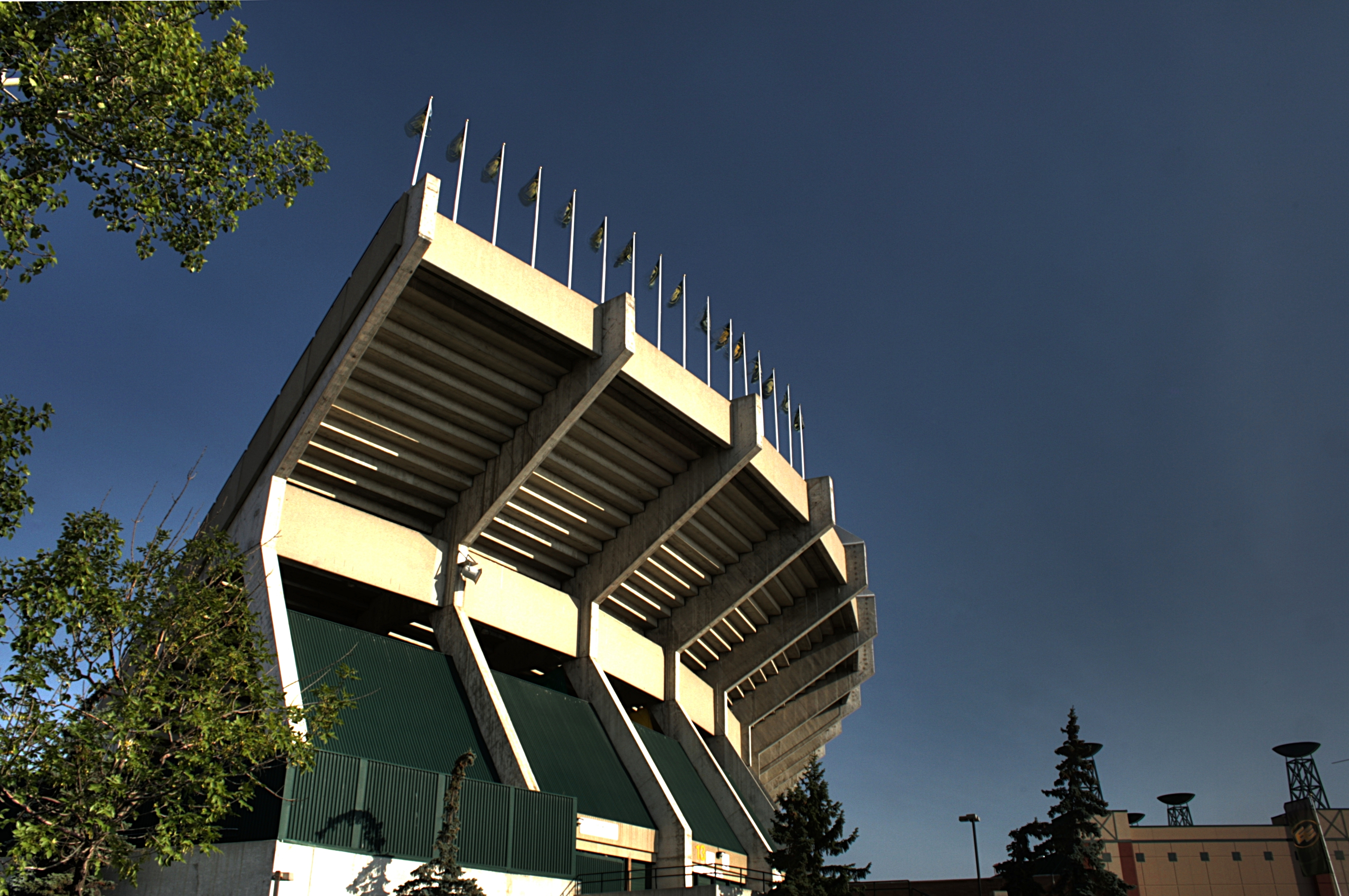 South exterior of Commonwealth Stadium in Edmonton, Alberta, Canada.